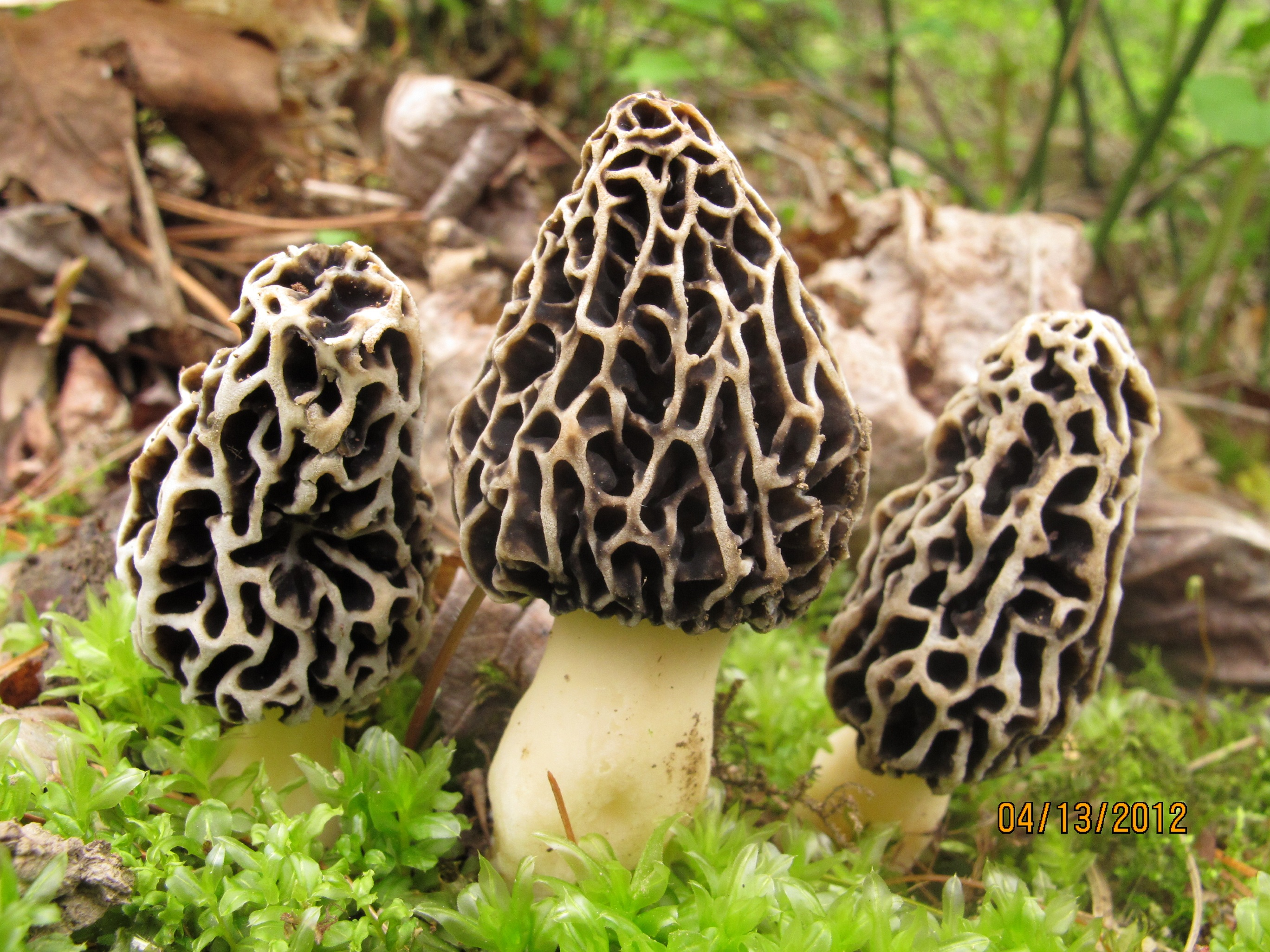 Morchella prava Dewsbury, Moncalvo, J.D.Moore & M.Kuo Image location: Beaver Creek State Park, East Liverpool, Ohio, USA Under apple tree. Recognized by sight For more information about this, see the observation page at Mushroom Observer.